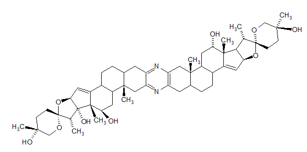 Ritterazine M scheme